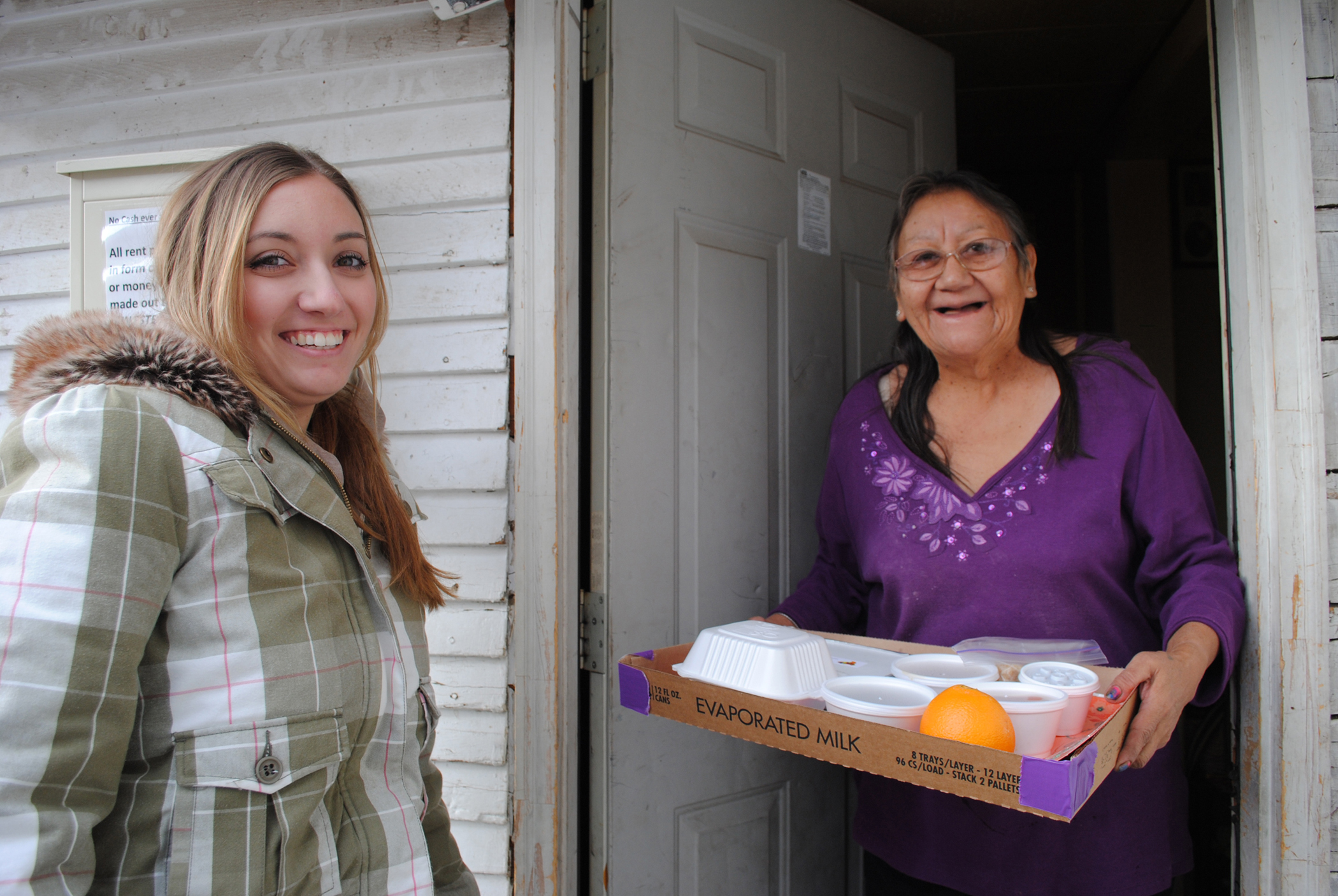 Clara Donney, (right), a Meals on Wheels recipient of a Thanksgiving dinner sponsored by the Great Falls Community Food Bank, is all smiles as Airman 1st Class Courtney Taylor, customer service technician with the 341st Comptroller Squadron, delivers her meal.